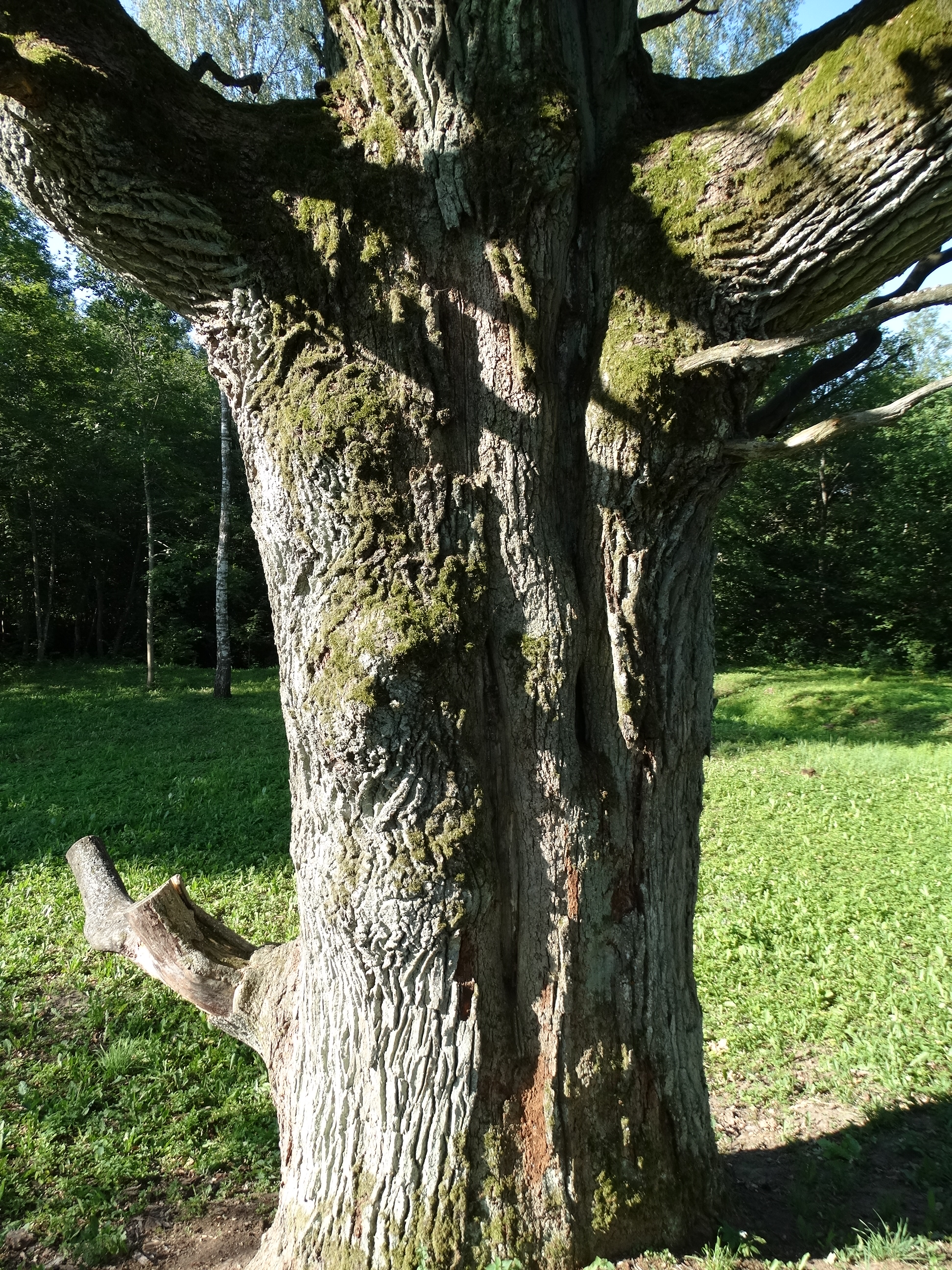 Šaukšteliškiai Oak, trunk, Molėtai district, Lithuania